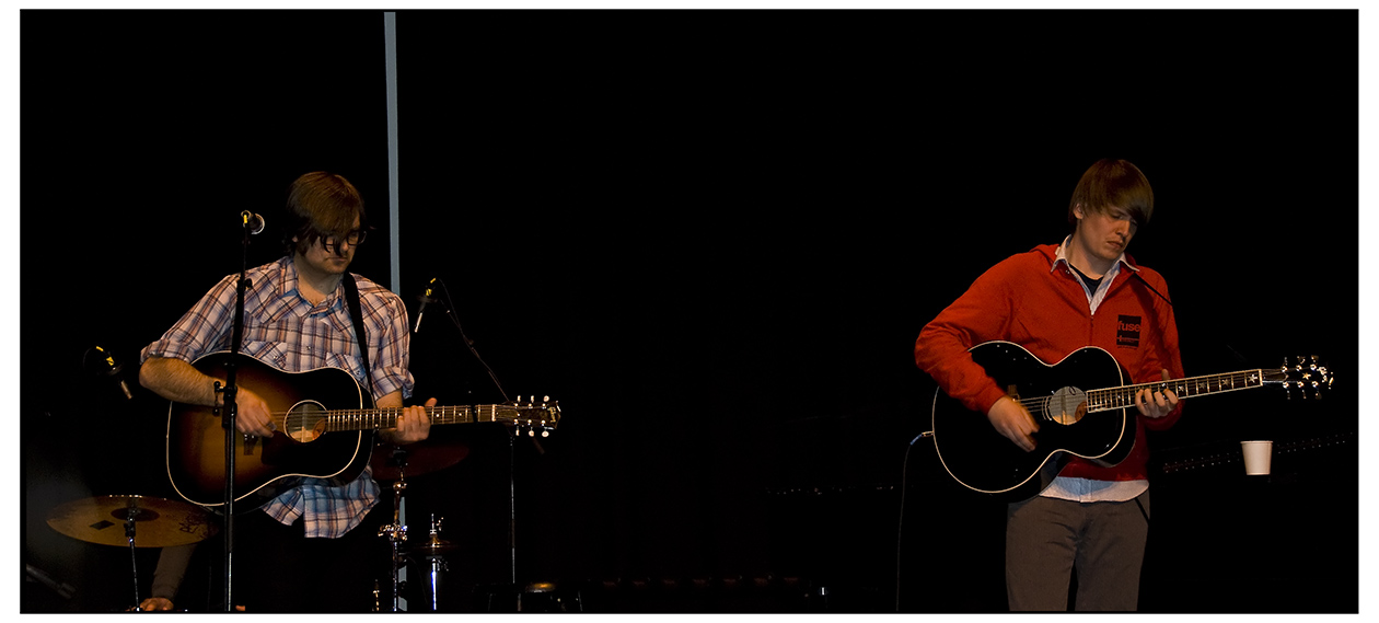 more shots from the WBEZ Sound Opinions taping